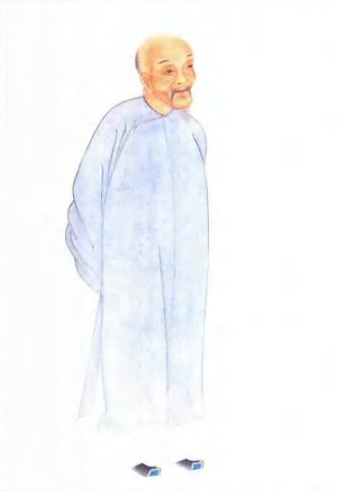 Zheng Xie (simplified